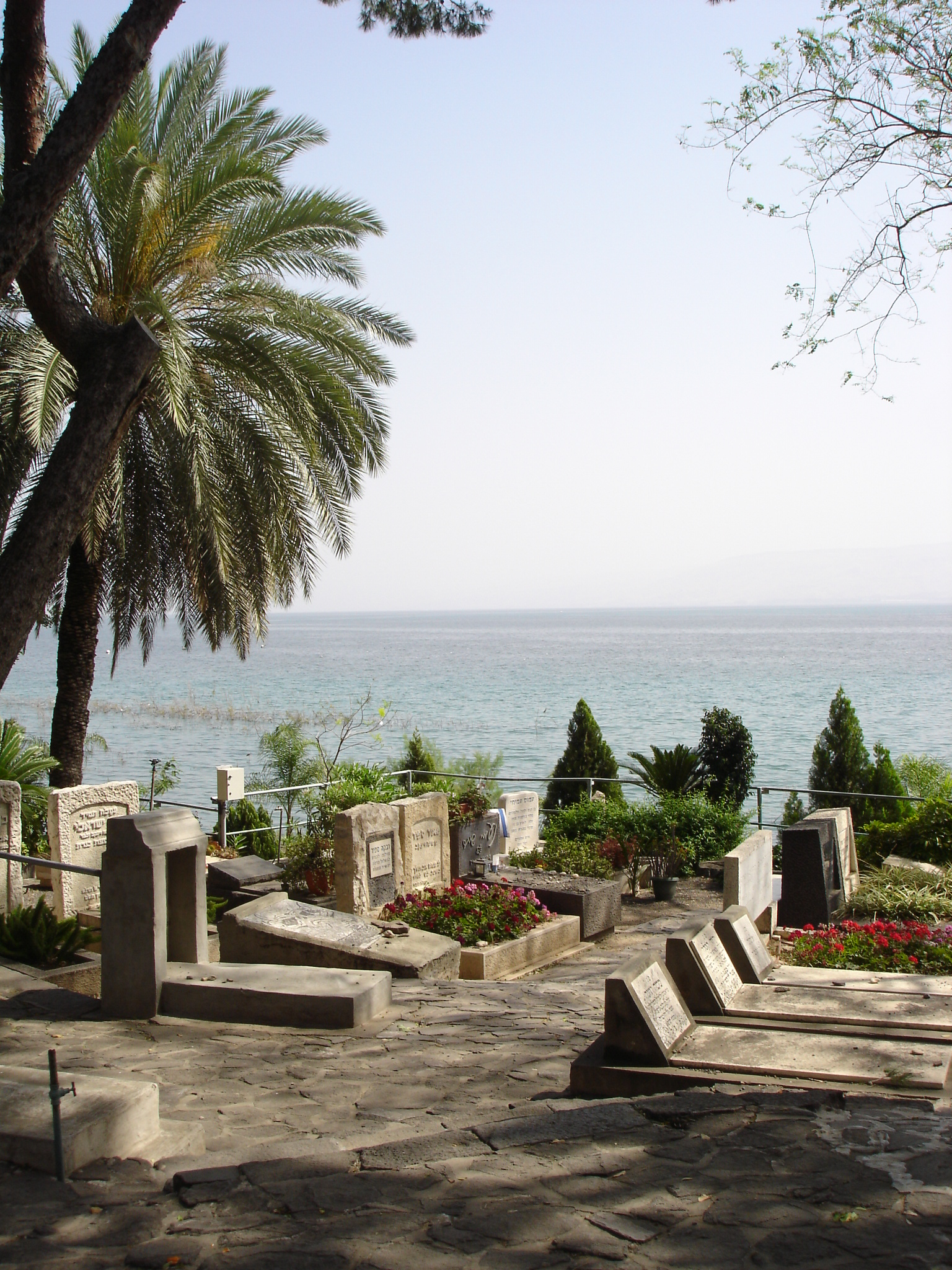 Naomi Shemer's grave and lake Kinneret